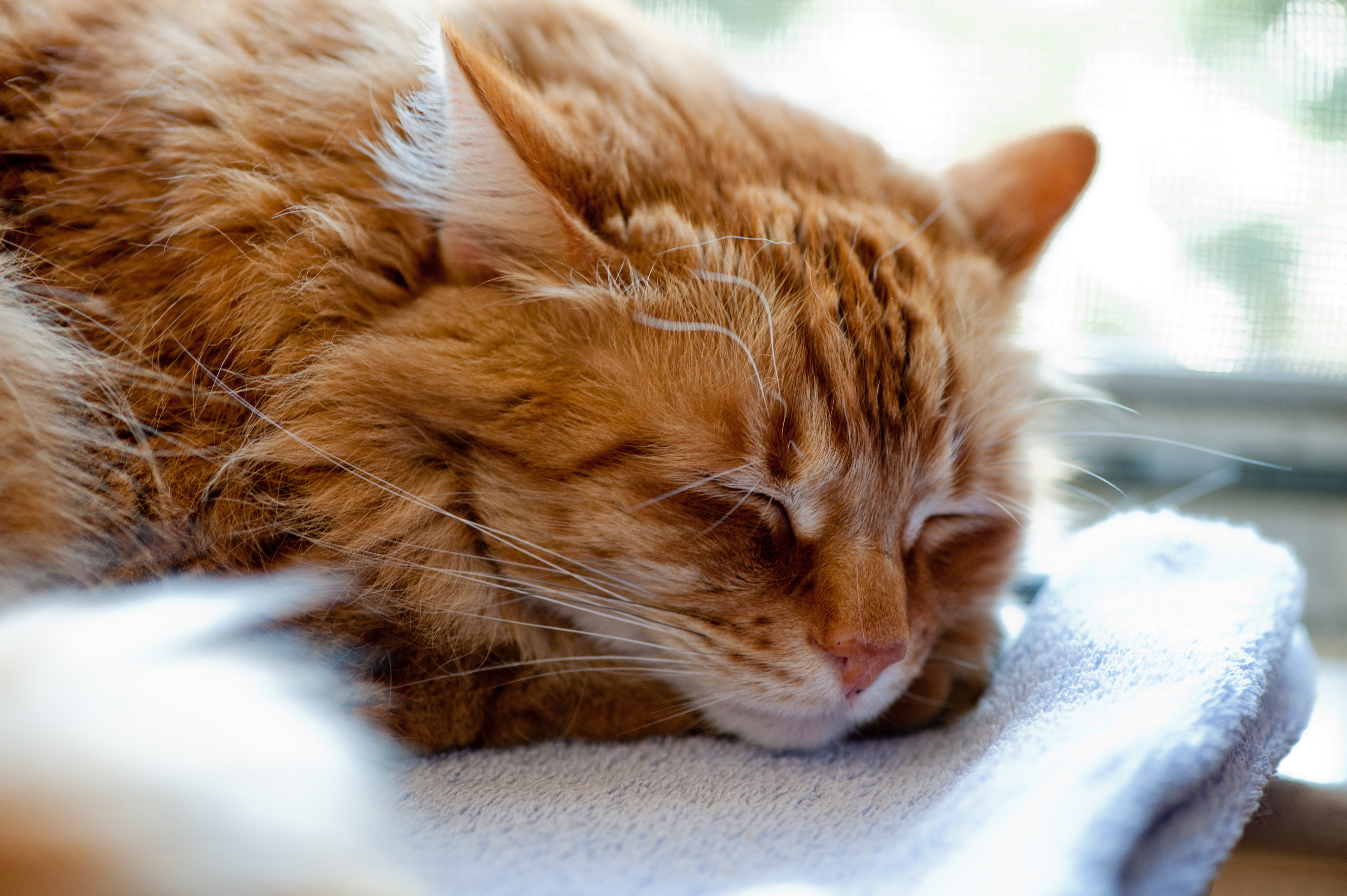 Gillie spent more than twelve hours outdoors Monday. It started normally enough when he went out as usual. Normally he shows up to come in about an hour or two later. However, the logging crew showed up and started work at 7. Gillie doesn't like noisy machines so he stayed away. Our neighbor is doing some tree clearing and the clearing crew separates the good firewood and the junk wood, which is chipped and sent to a facility nearby that burns wood for power. We went around looking in the woods during the day, but it was too noisy and Gillie was nowhere to be seen. The clearing crew left about 4 so we started to look more earnestly after that. He didn't respond to the car horn, calls, whistles, our normal calling noises. Finally about 6:30 Gillie was spotted sleeping under a tree about 300 ft from home. He'll be an indoor cat for a while now. Today he's zonked out so he doesn't mind, but he'll still be indoors tomorrow.